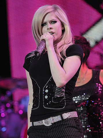 Avril Lavigne performing at the Heineken Music Hall, in Amsterdam, Netherlands.